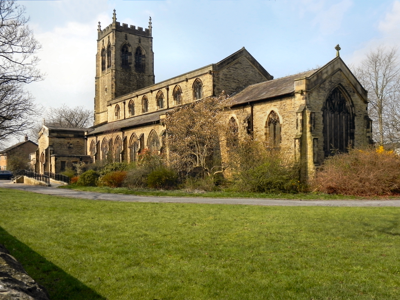 Christ Church parish church, Pennington, Greater Manchester, seen from the southeast